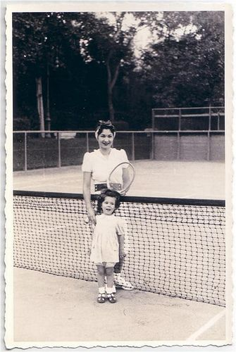 HM Queen Farida with HRH Princess Ferial at the Koubbeh Palace Tennis Courts.